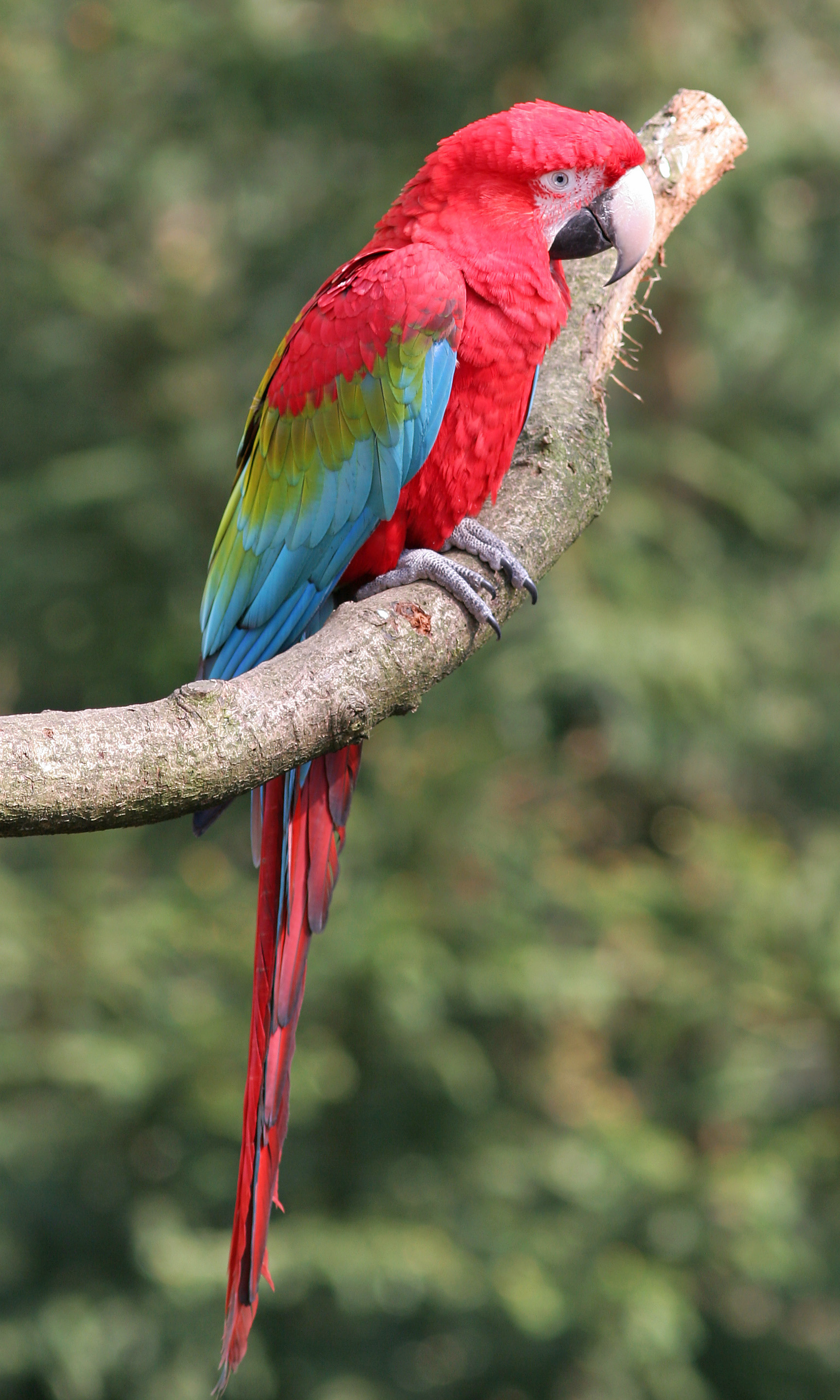 Red-and-green Macaw (also known as Red-and-green Macaw) at Apenheul Primate Park, Apeldoorn, Netherlands.